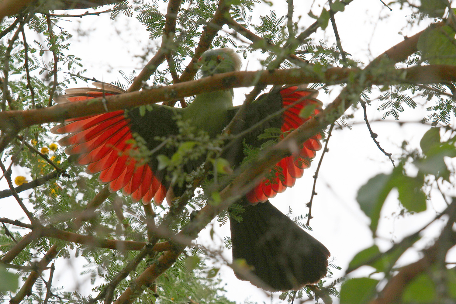 This image of the prince ruspoli's turaco (Tauraco ruspolii) was made around the town Negele Borana in the Oromia region in Ethiopia.